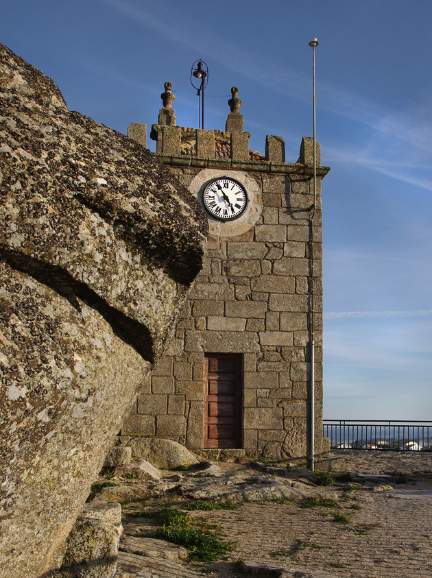 Torre do Relógio de Meda